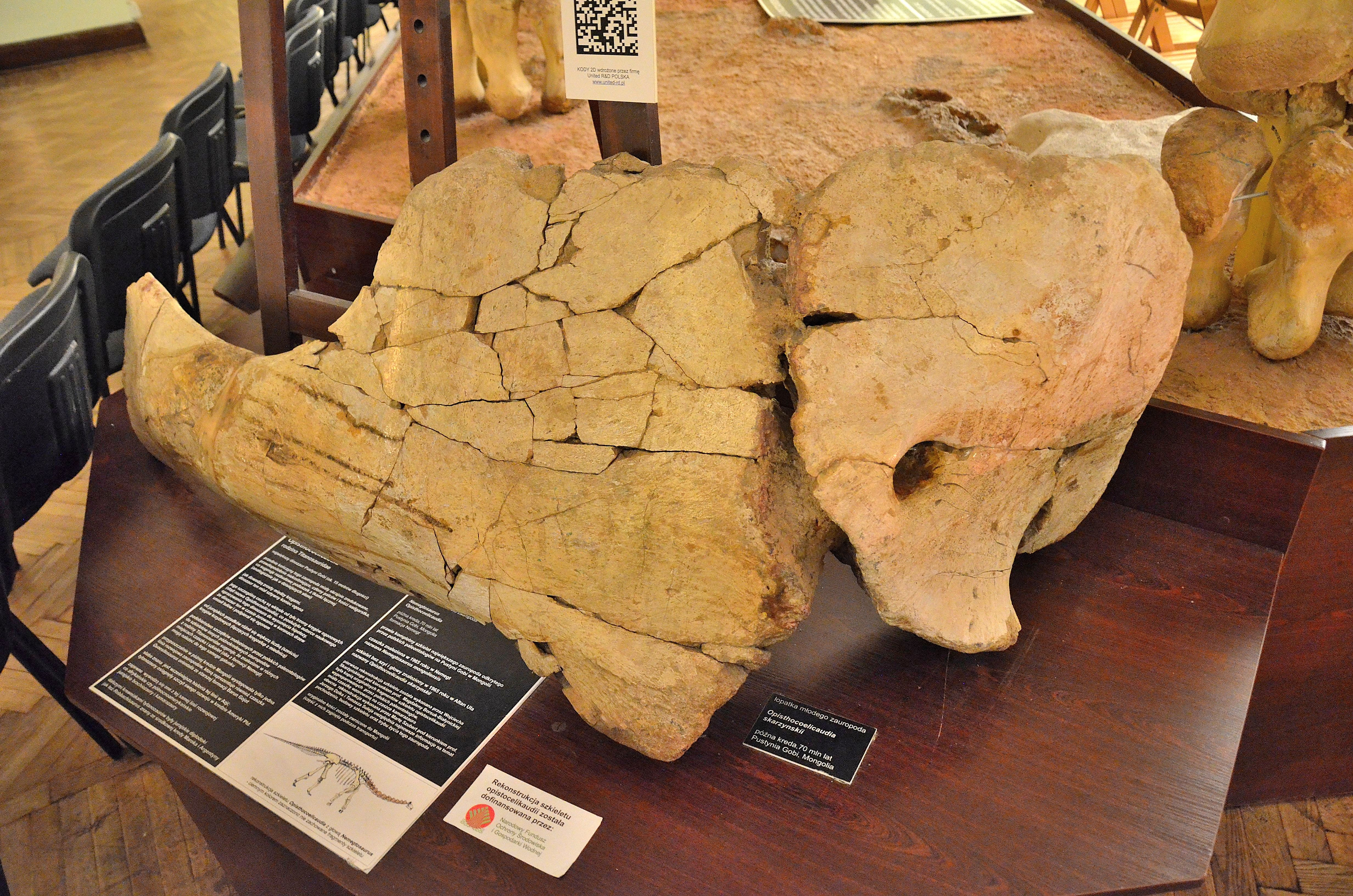 Opisthocoelicaudia skeleton. Museum of Evolution in Warsaw